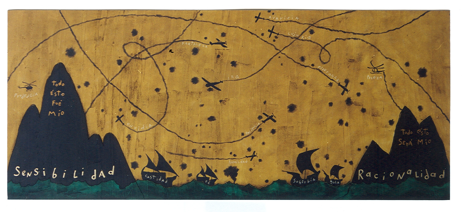 Painting by Daniel Romero Castillo in mixed media on wood.